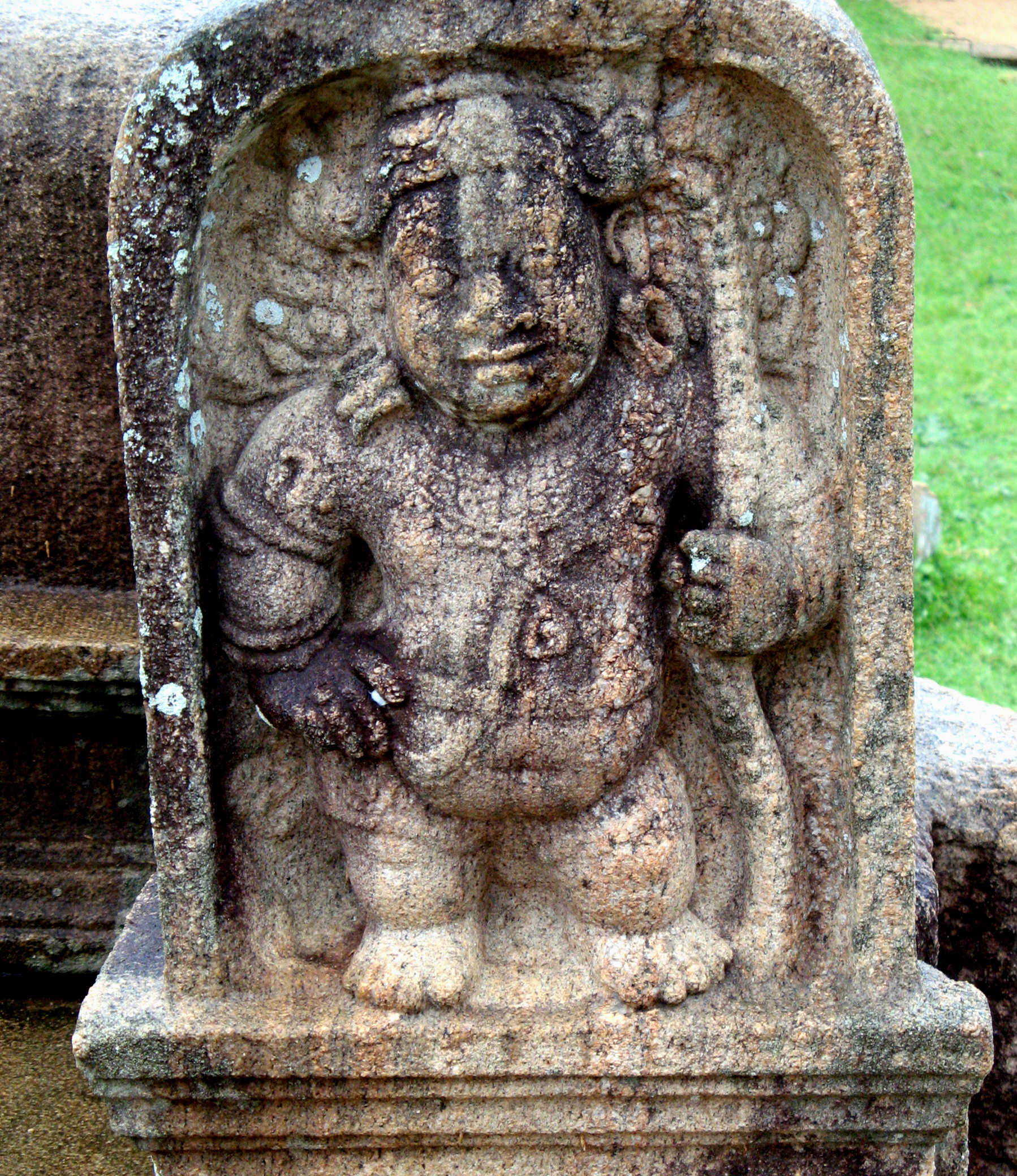 This charming guardstone is carved with the figure of a gana, auspicious attendent of Kubera, the god of wealth.